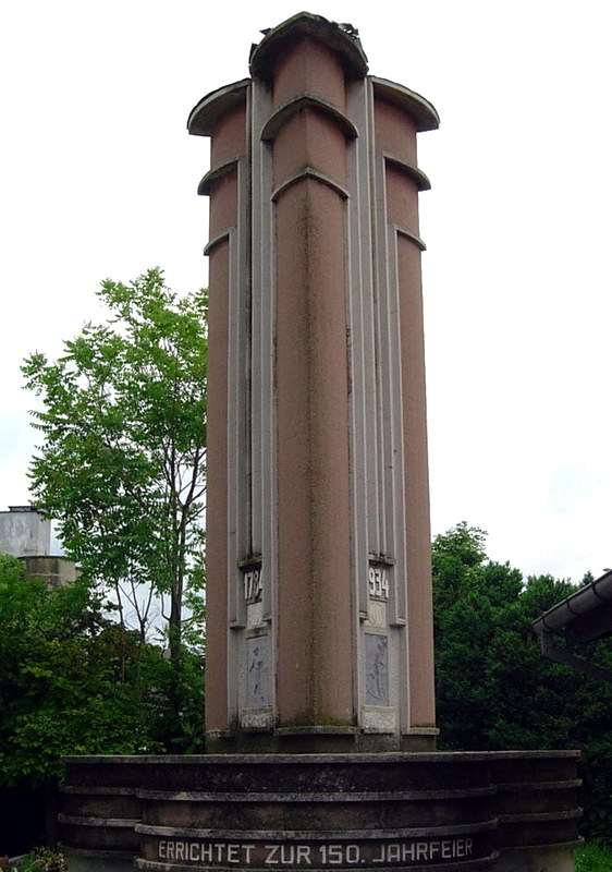 Monument in Savino Selo.